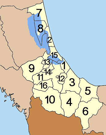 Map of Songkhla province, Thailand, with the districts (Amphoe) numbered. Mueang Songkhla (อำเภอเมืองสงขลา) Sathing Phra (อำเภอสทิงพระ) Chana (อำเภอจะนะ) Na Thawi (อำเภอนาทวี) Thepha (อำเภอเทพา) Saba Yoi (อำเภอสะบ้าย้อย) Ranot (อำเภอระโนด) Krasae Sin (อำเภอกระแสสินธุ์) Rattaphum (อำเภอรัตภูมิ) Sadao (อำเภอสะเดา) Hat Yai (อำเภอหาดใหญ่) Na Mom (อำเภอนาหม่อม) Khuan Niang (อำเภอควนเนียง) Bang Klam (อำเภอบางกล่ำ) Singhanakhon (อำเภอสิงหนคร) Khlong Hoi Khong (อำเภอคลองหอยโข่ง)